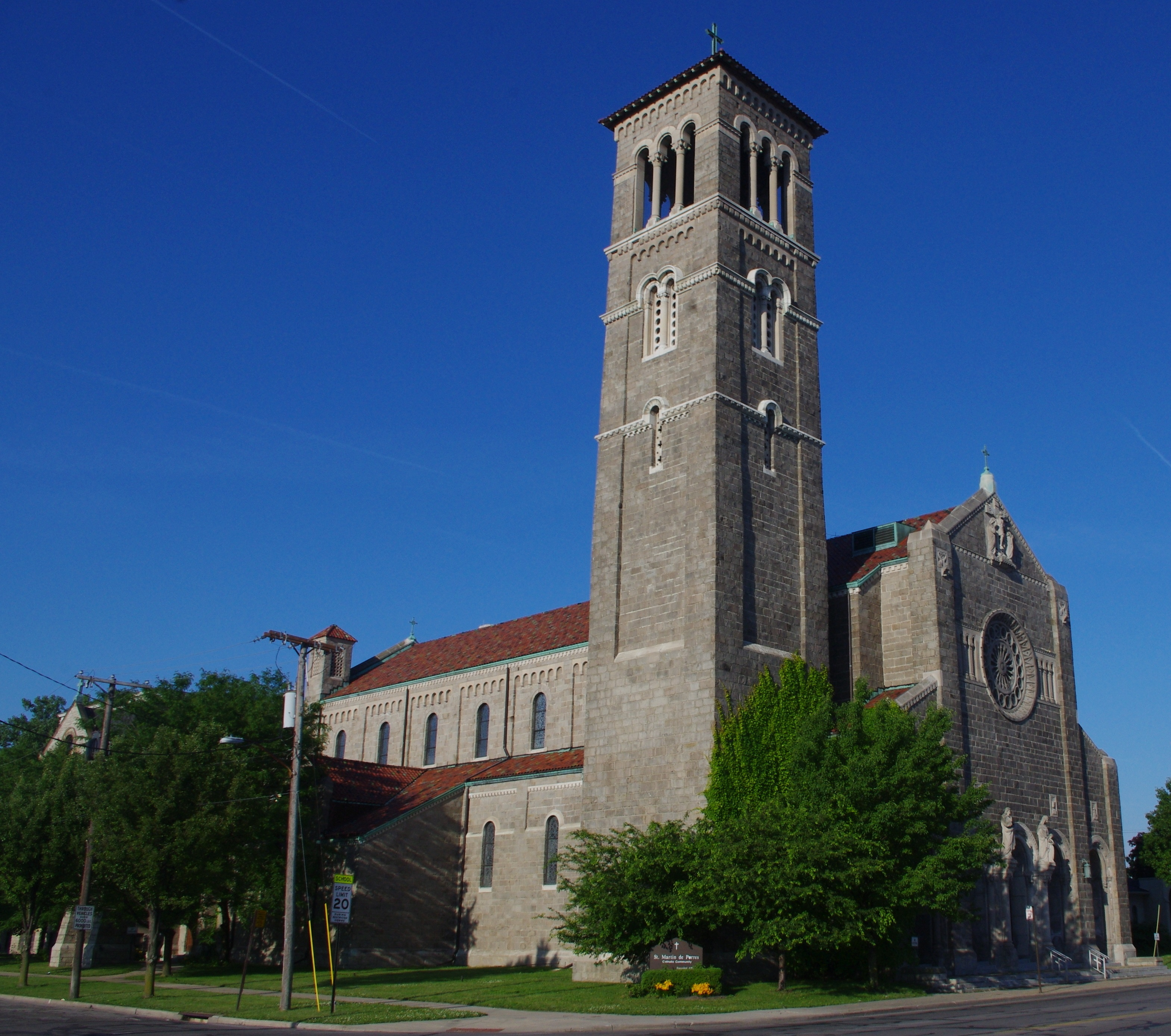 Saint Martin de Porres Catholic Church (Toledo, OH) - exterior